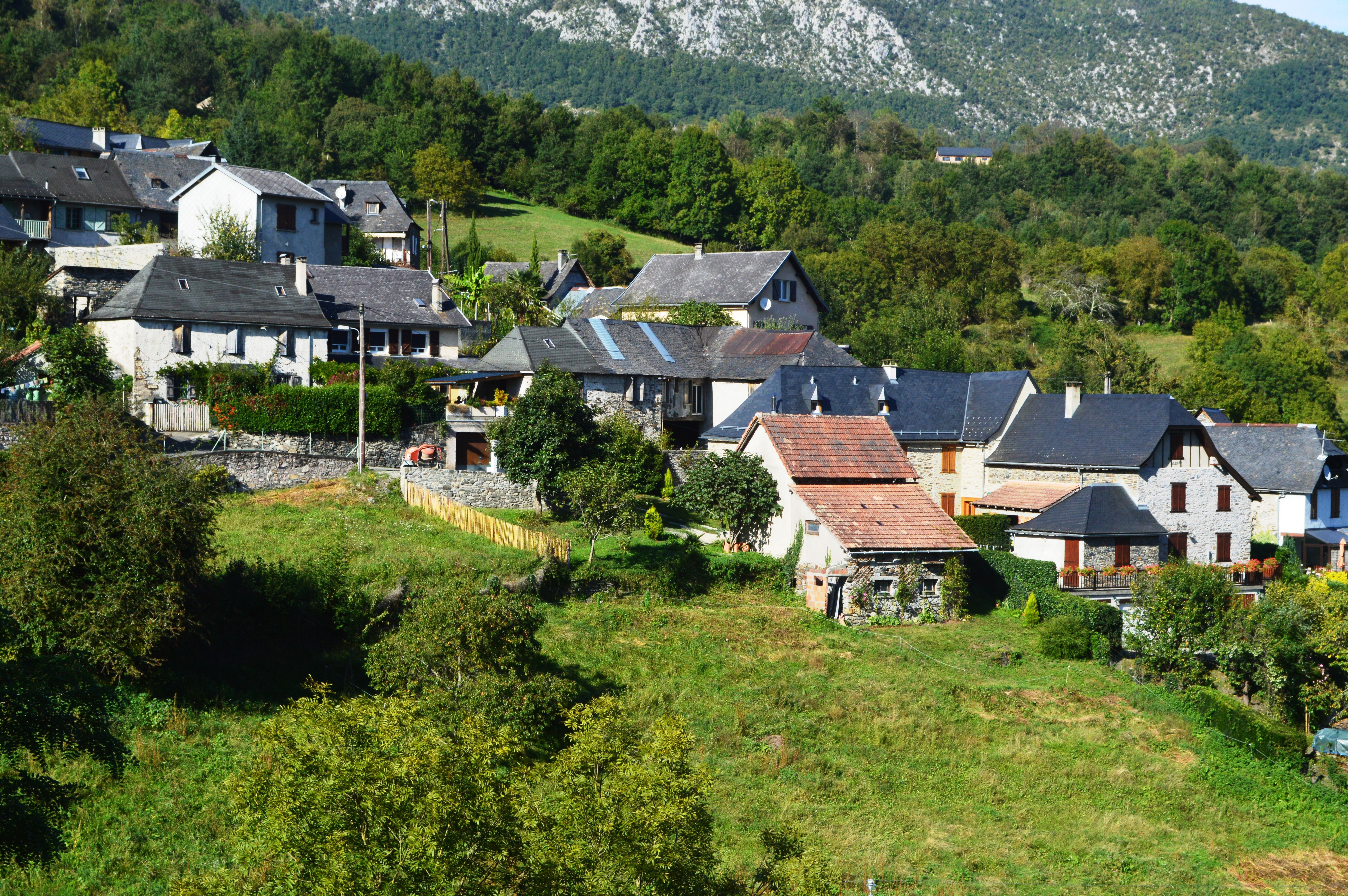 Arrout Village